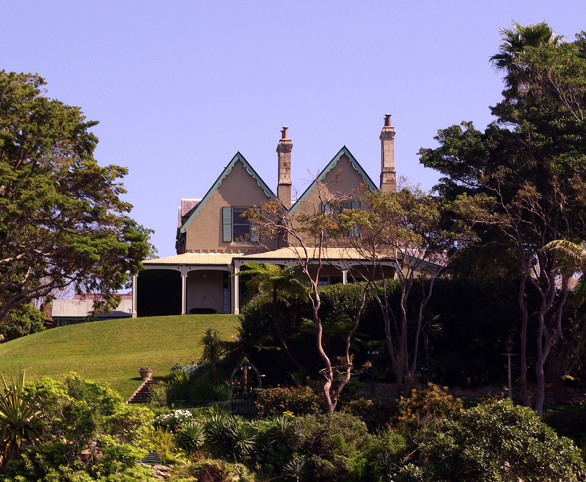 Kirribilli House, in the Sydney suburb of Kirribilli. As viewed from a commuter ferry.